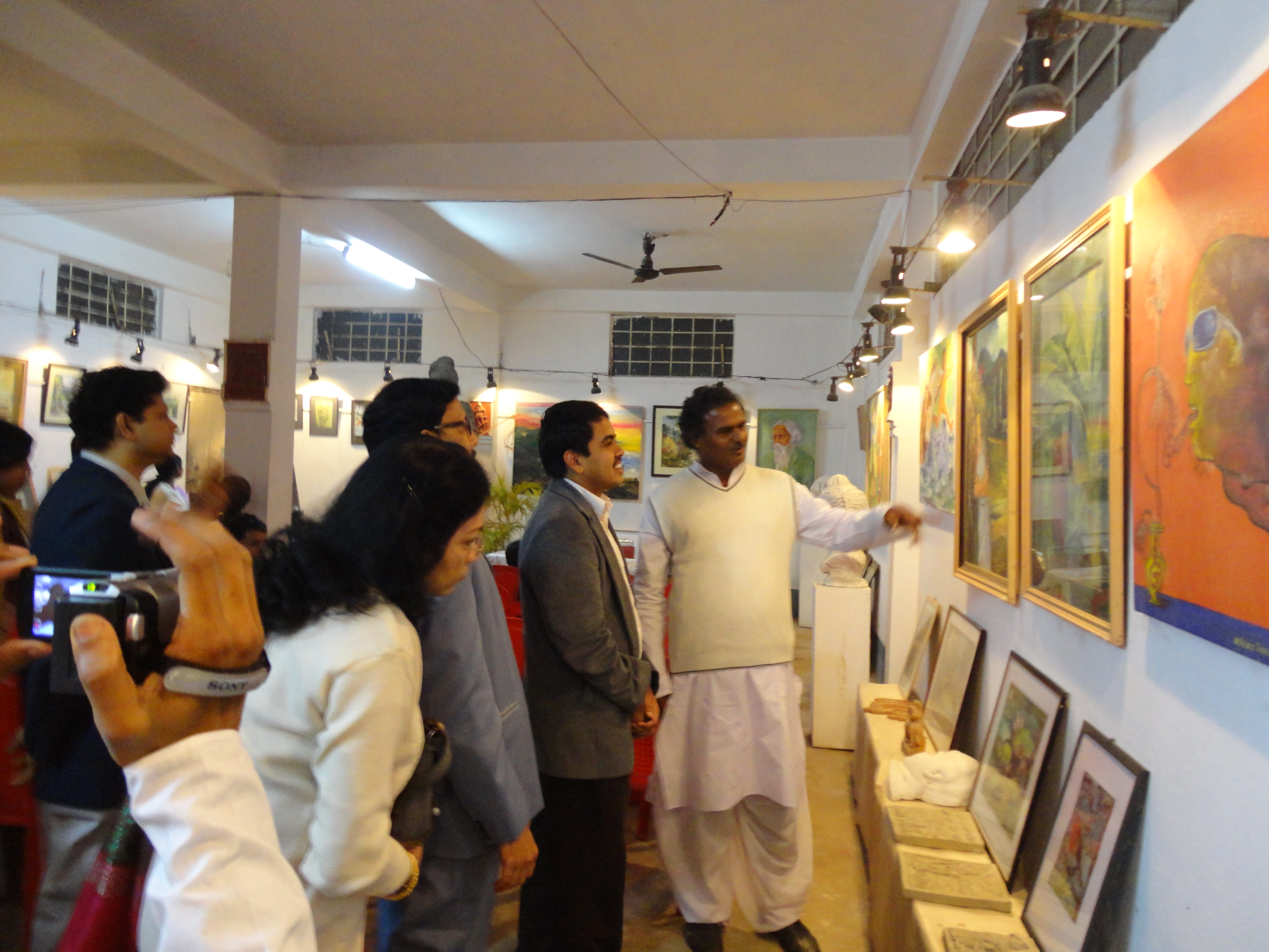 Shri Mohan Ghnadhi,D.M.(IAS), Shri Pranab Das,S.P.(IPS) and Shri Karuna Bhattacharjee during the exhibition in Uday Shankar Art Gallery